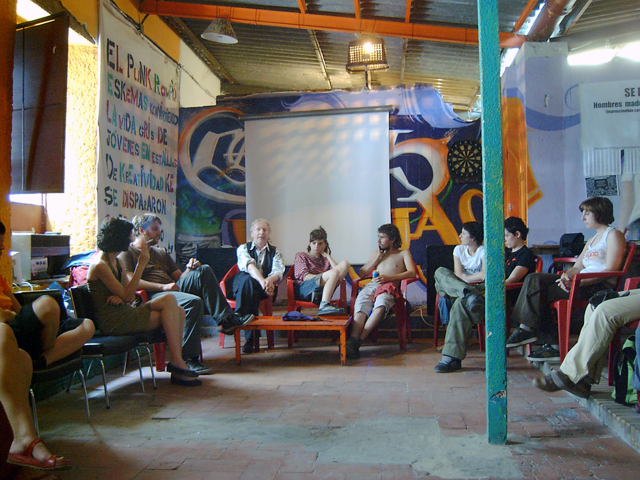 To be used to illustrate Ladyfest articles on wikipedia. Licensed under Creative Commons "by" license